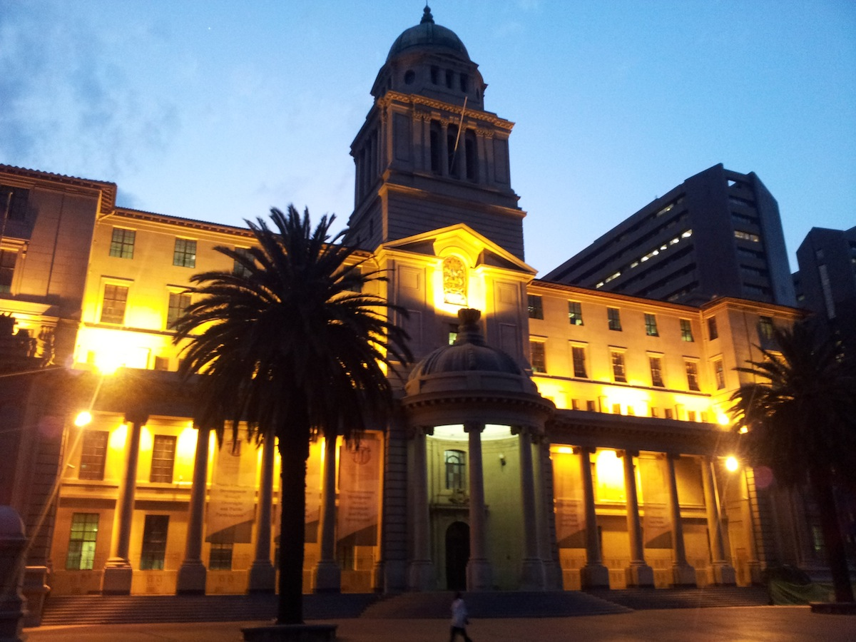 This media shows a South African Protected Site with SAHRA file reference 9/2/228/0068.